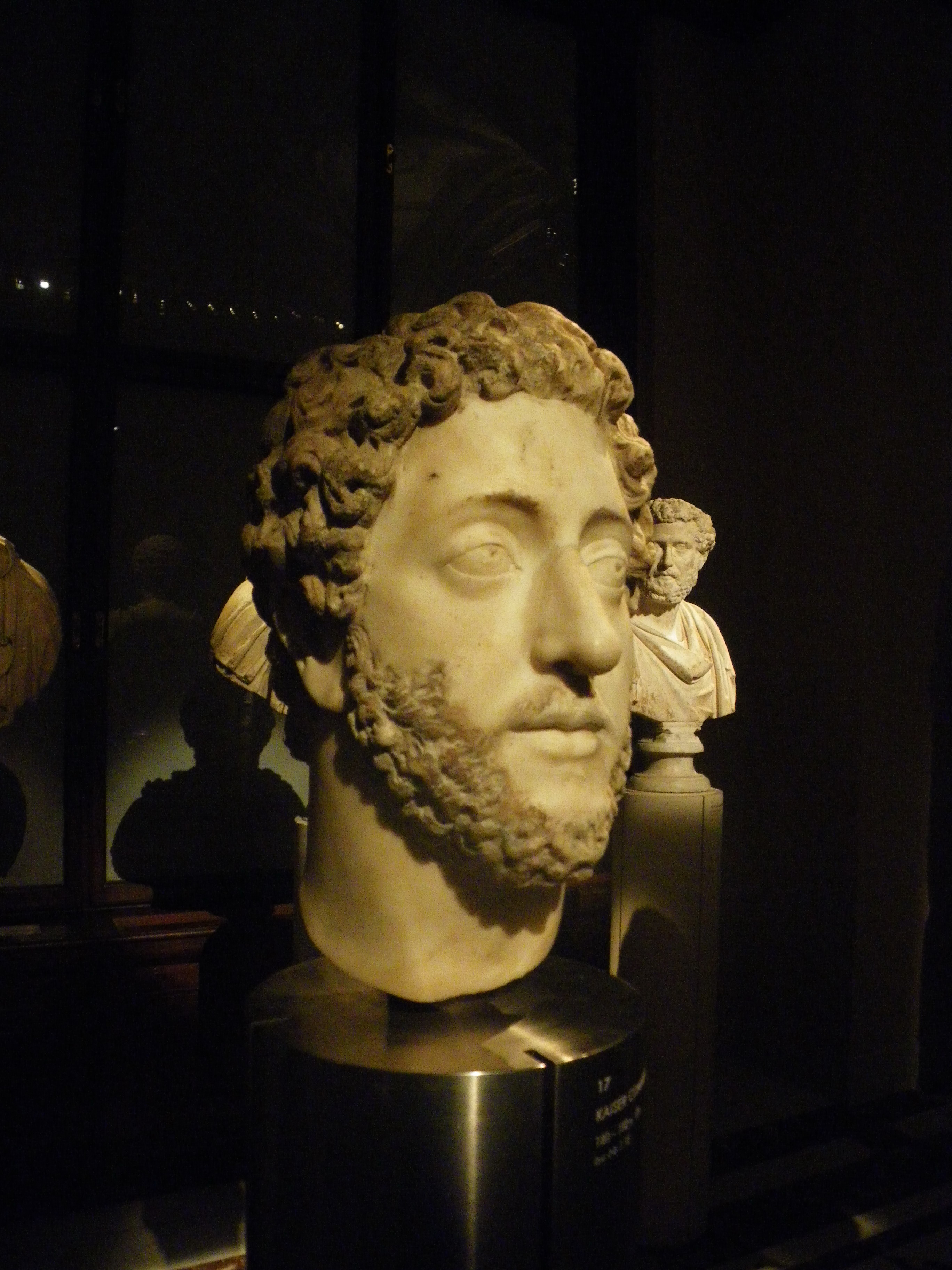 Bust of the Roman Emperor Commodus in the Kunsthistorisches Museum (Museum of Art History) in Vienna, Austria.